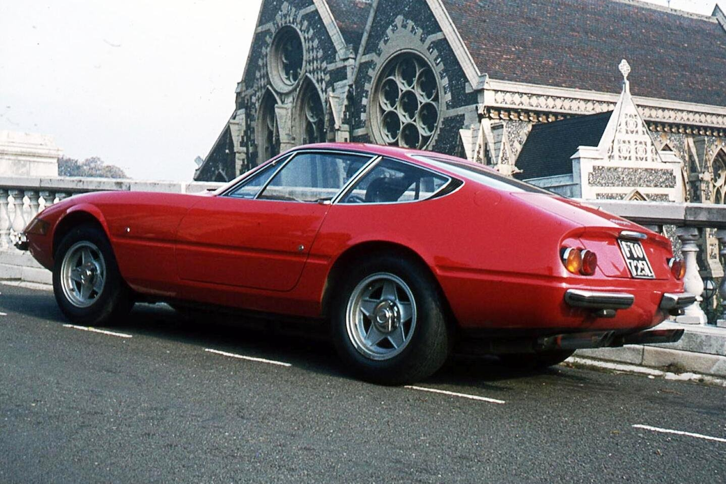 Ferrari 365 Daytona, parked outside Harrow School Chapel. The car that inspired the shape of the Rover SD1.